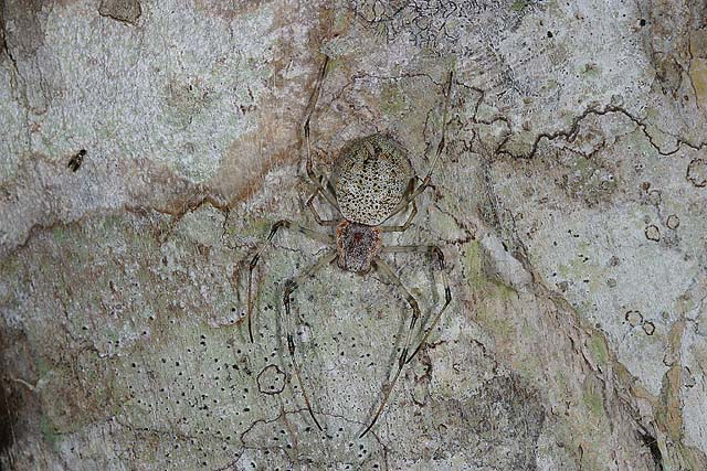 Herennia from New Guinea. Very likely H. papuana, according to Matjaz Kuntner.